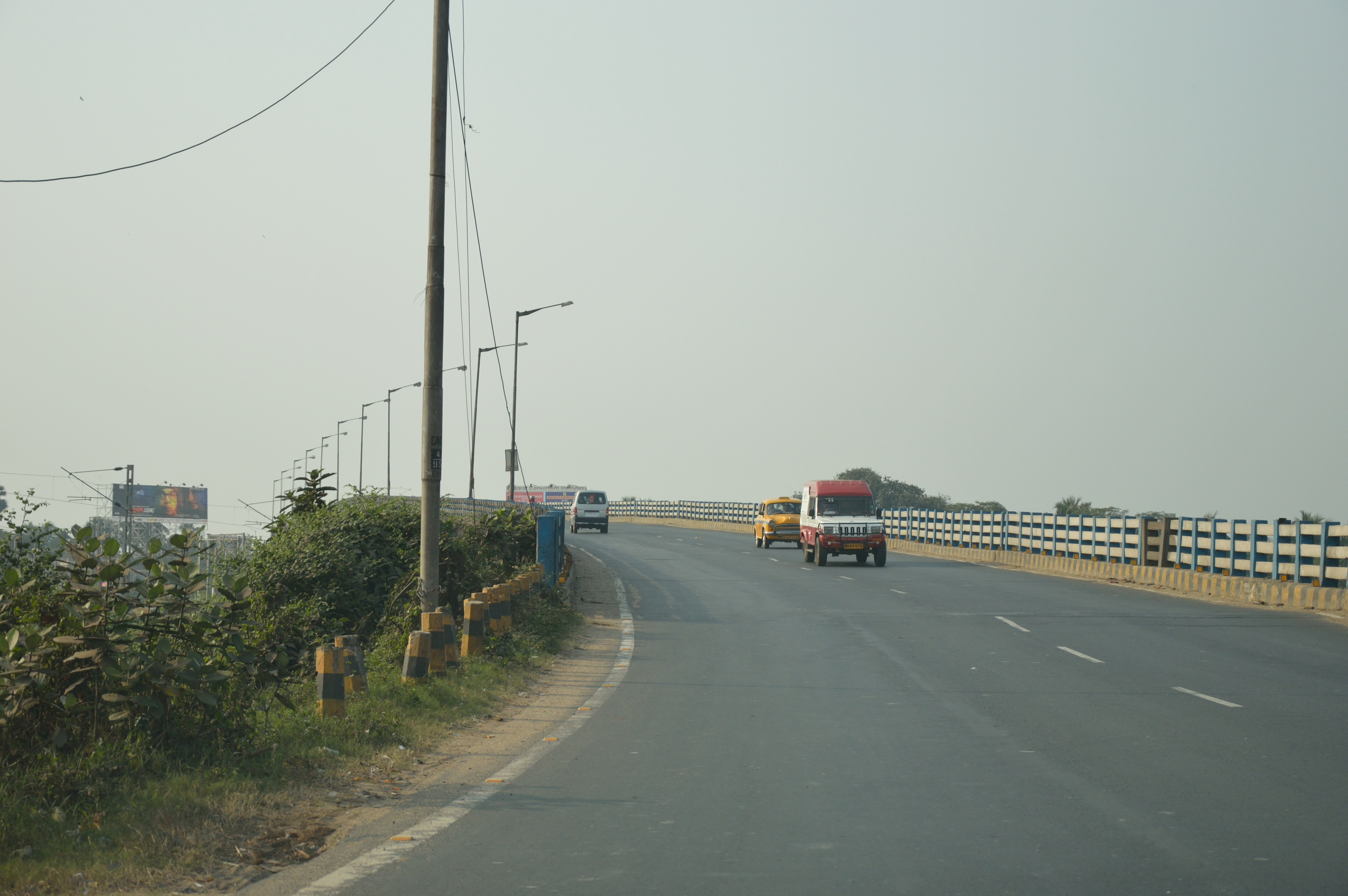 Photographed in Howrah.